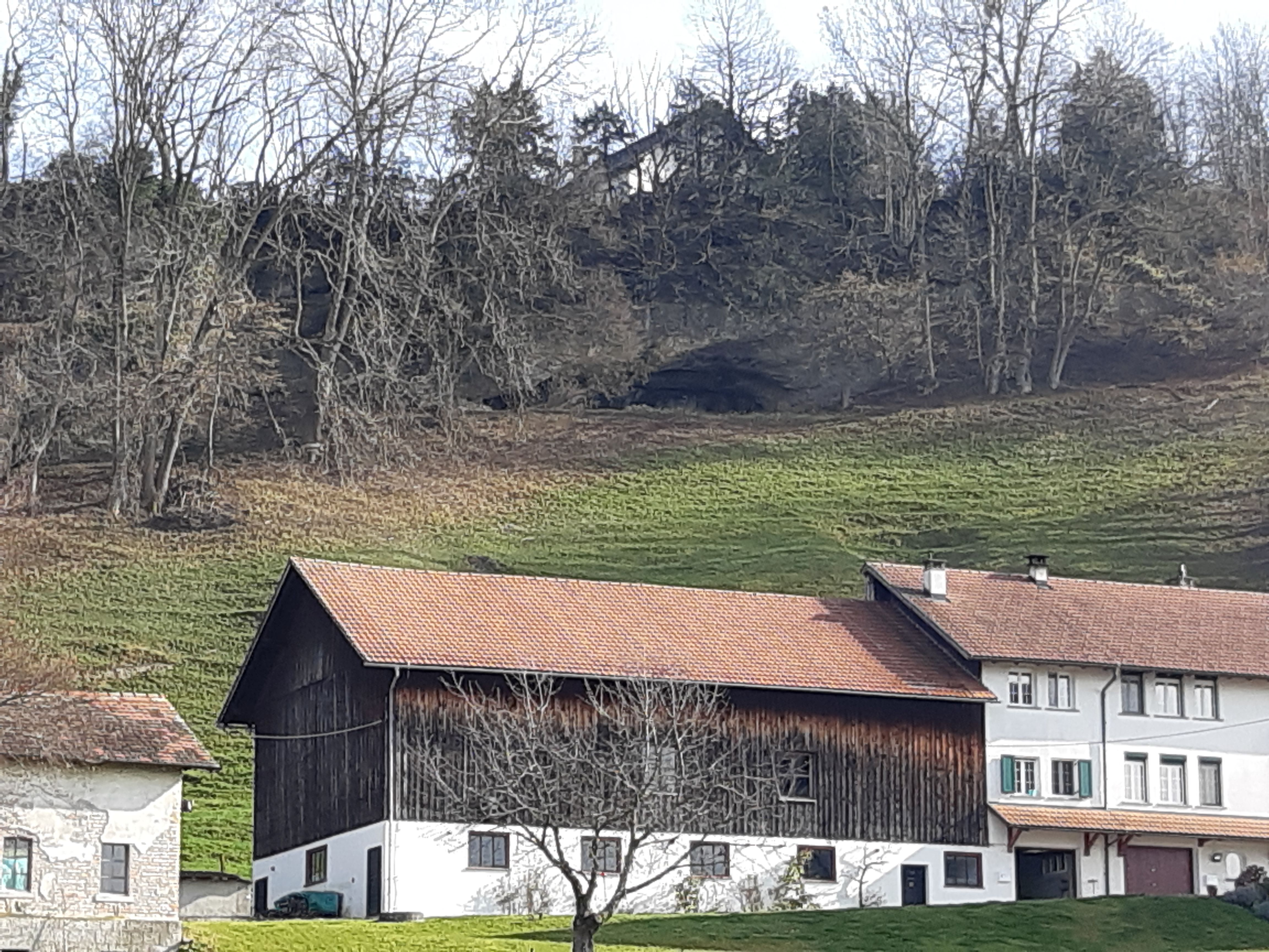 The "Wellensteinhoehle" is part of the so-called "Langer Stein" (meaning: "Long Stone"), in which there are several holes and Rock shelter (Abri), which were created by washing out marl from the Nagelfluh rock. A prehistoric settlement is suspected here. In the foreground of the picture you can see the residence "Wellenstein".